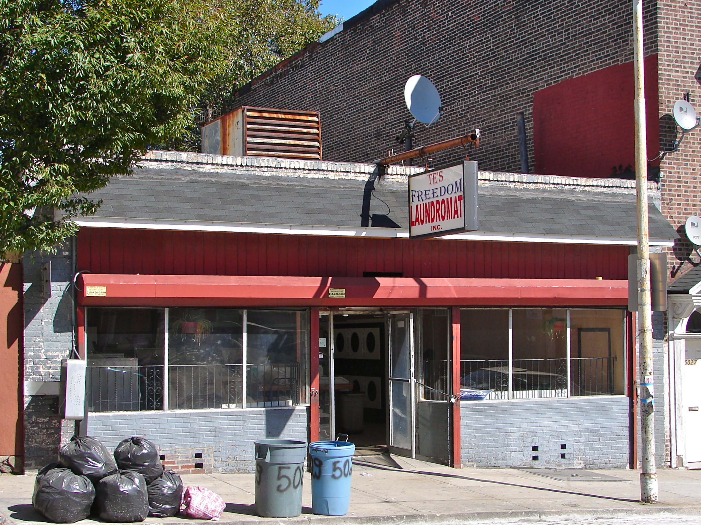 5029 Germantown Avenue, Philadelphia, PA in the Colonial Germantown Historic District on the NRHP. The NRHP nomination Inventory lists it as "Commercial building - c. 1947 with later alterations, one story, brick. According to trade sources, this was the first coin-operated laundromat in the United States. -- Intrusion." bolding added